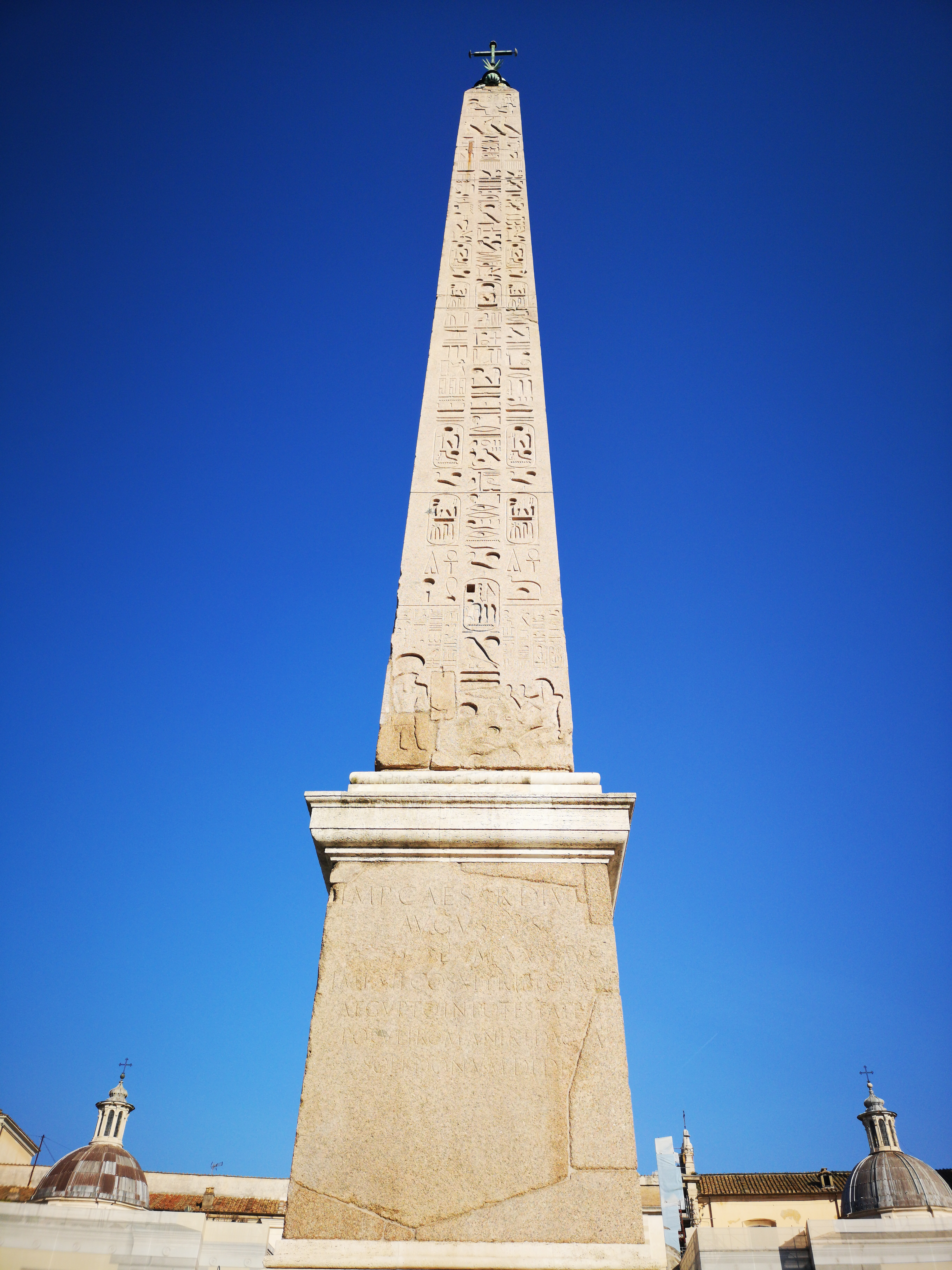 The Flaminio Obelisk (Italian: Obelisco Flaminio) is one of the thirteen ancient obelisks in Rome, Italy. It is located in the Piazza del Popolo. It is 24 m (67 ft) high and with the base and the cross reaches 36.50 m (100 ft).